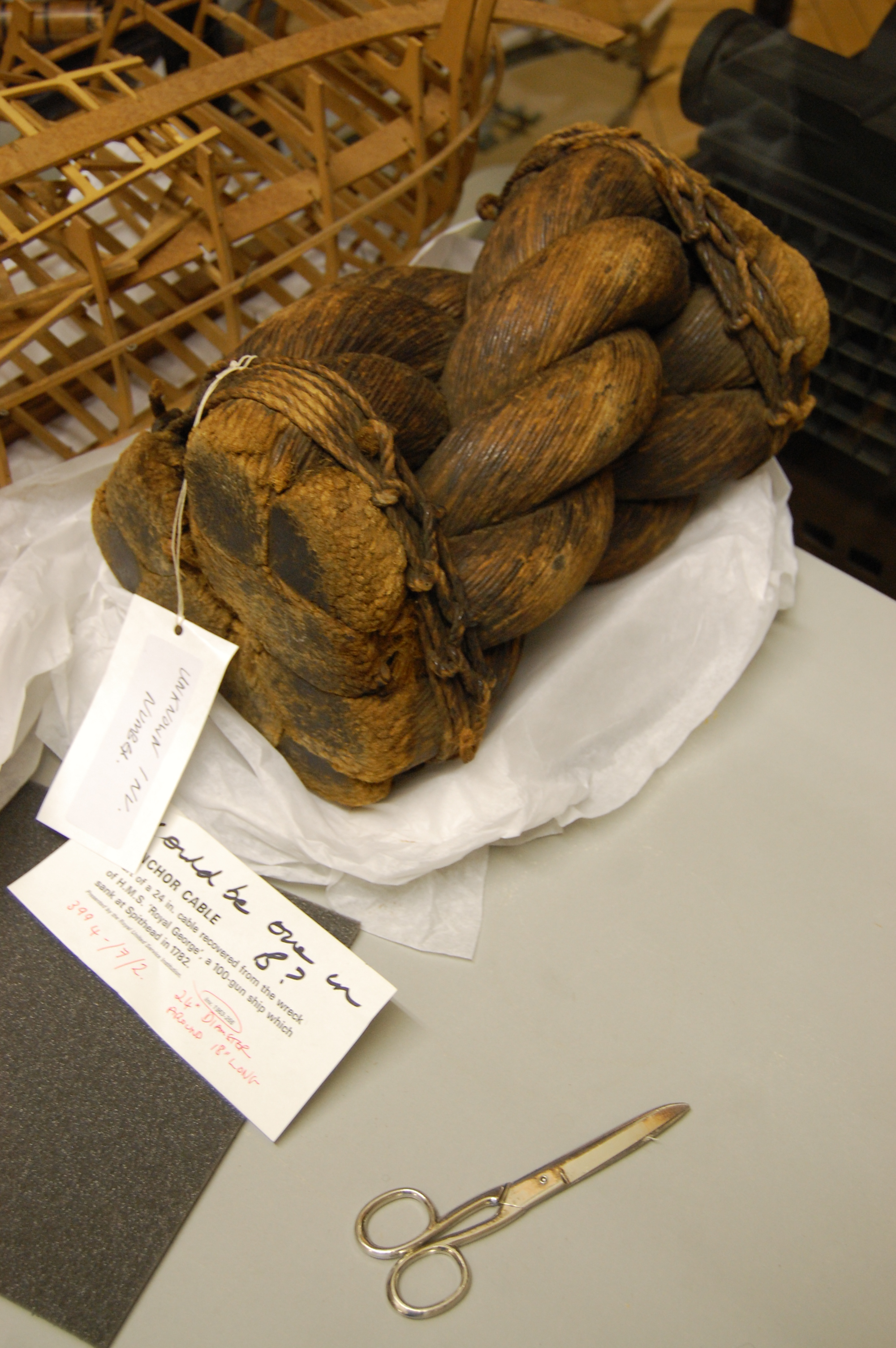 Anchor cable recovered from the wreck of HMS Royal George, which sank in 1782. Now in the Science Museum's Blythe House small objects store.